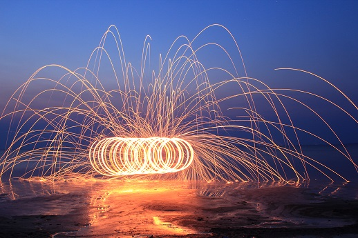 Spinning fiery steel wool at night